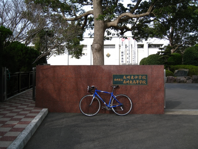 Nagasaki Higashi High School